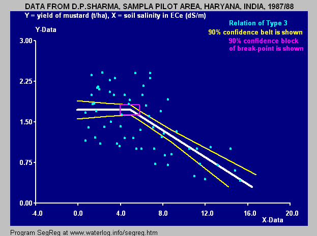 Yield of mustard in relation to soil salinity, segmented regression using least squares method